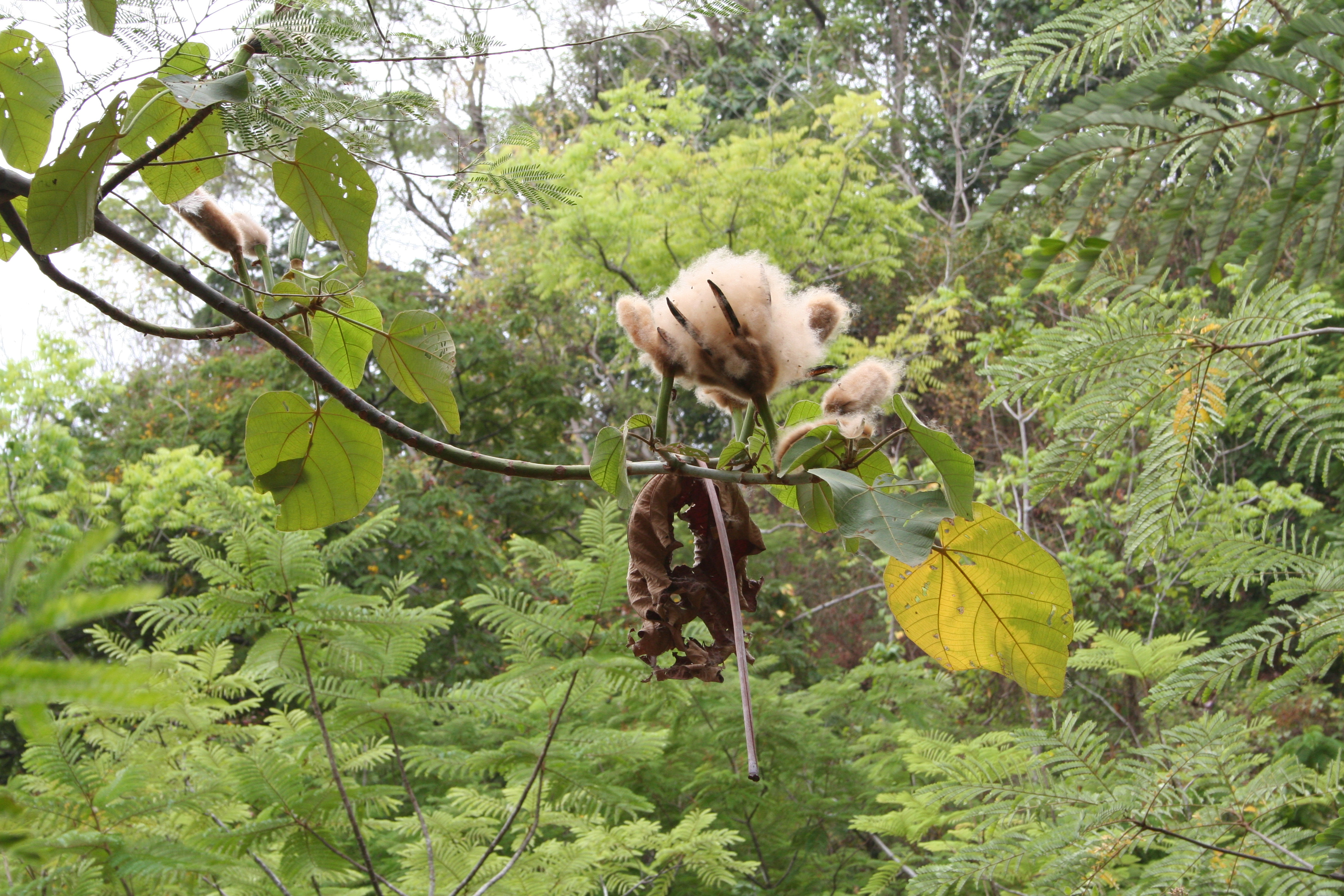 Ochroma pyramidale (Balsa) on Bota Hill, Limbe Botanical Garden, Limbe, Cameroon